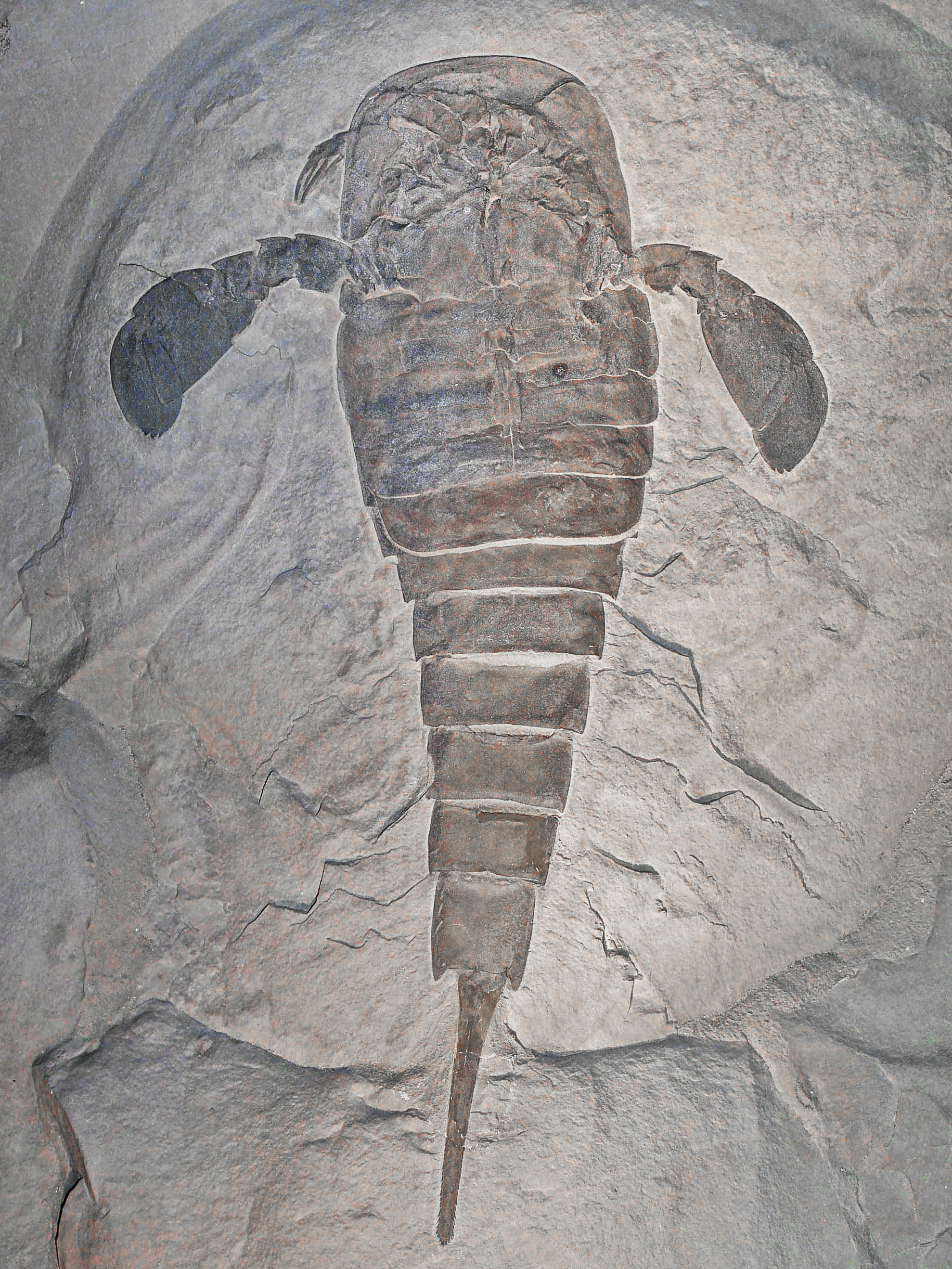 Eurypterus remipes, Eurypteridae; Upper Silurian, New York, USA; Staatliches Museum für Naturkunde Karlsruhe, Germany.